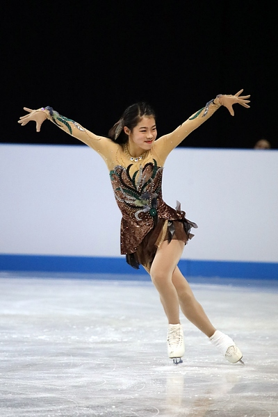 Photos – Junior World Championships 2018 – Ladies (Yuhana YOKOI JPN – 6th Place)